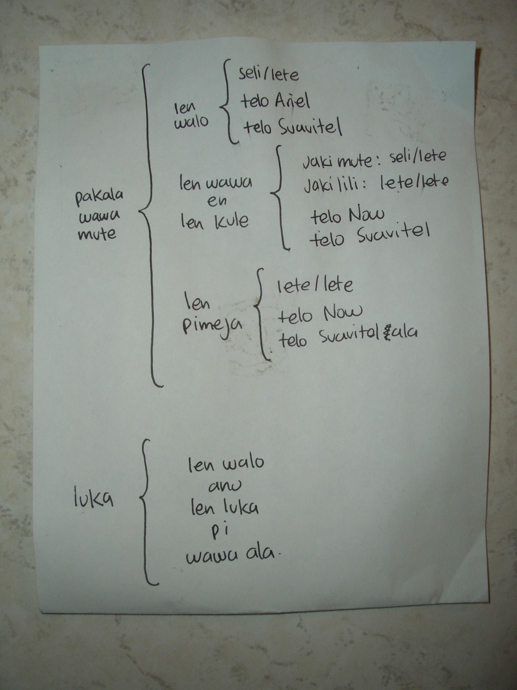 A text containing guidelines for using a washing machine written in Toki Pona.